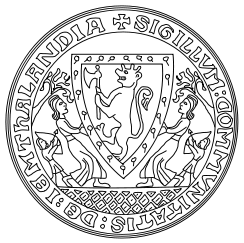 The old seal of Jamtland